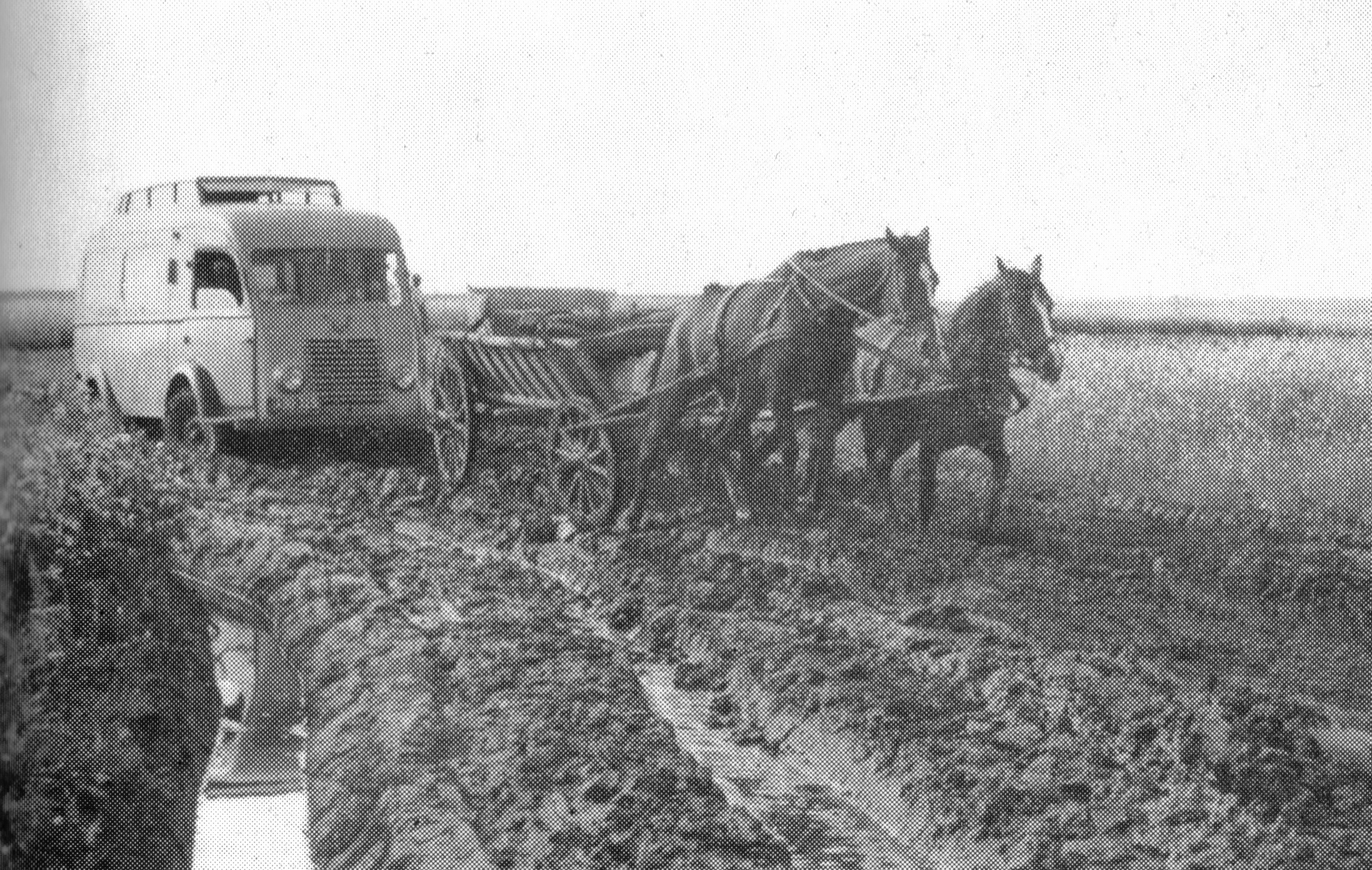 Broadcasting car of the Polish Radio, around 1960's Wóz transmisyjny Polskiego Radia. Lata (prawdopodobnie) 60-te